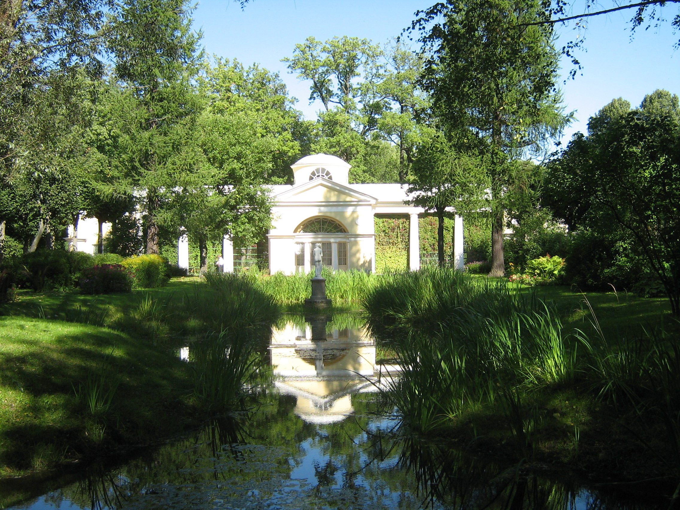 Pavlovsk (Russia)